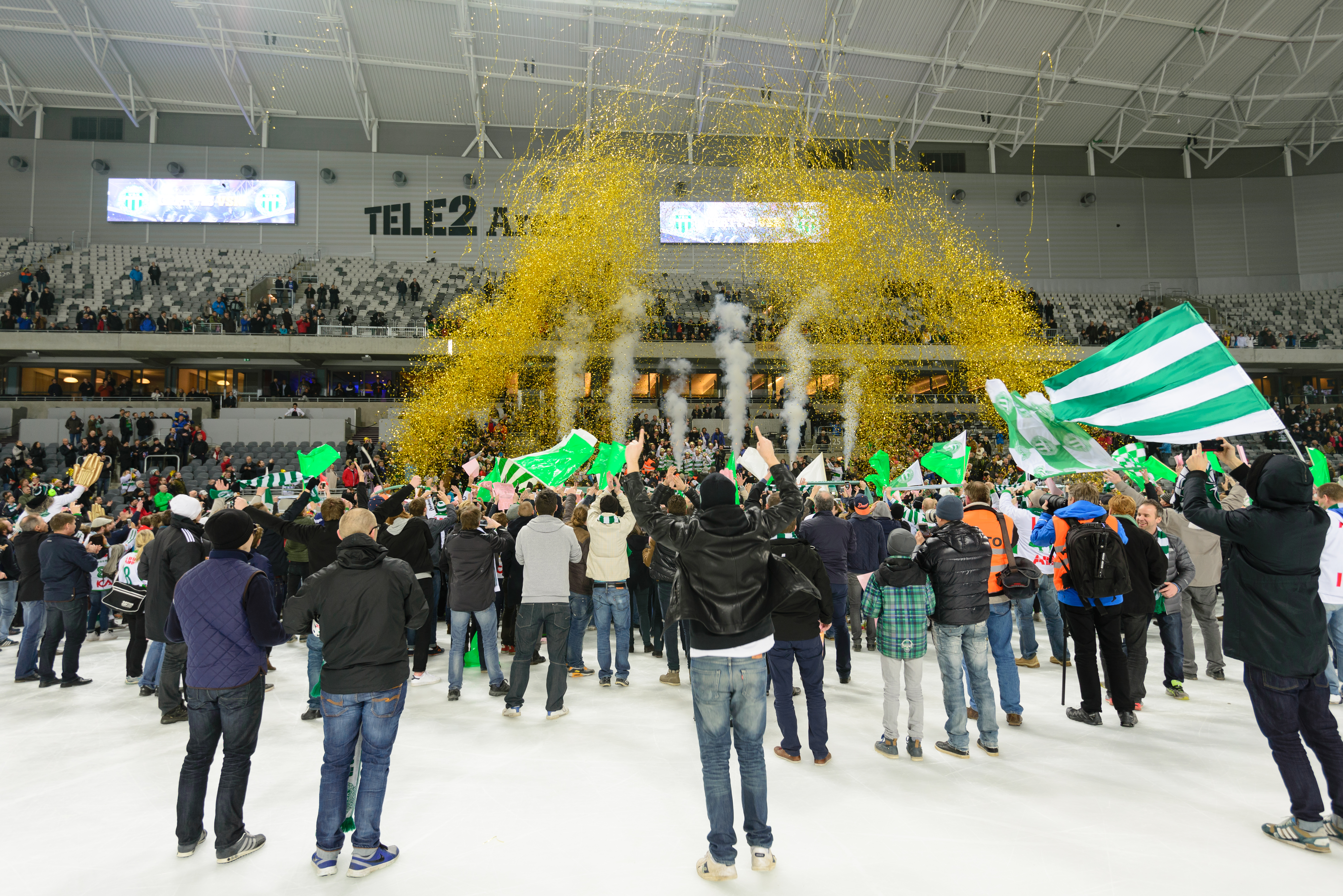 Swedish bandy championship final game of 2015, Sandvikens AIK (black)-Västerås SK (green/white) 4-6.